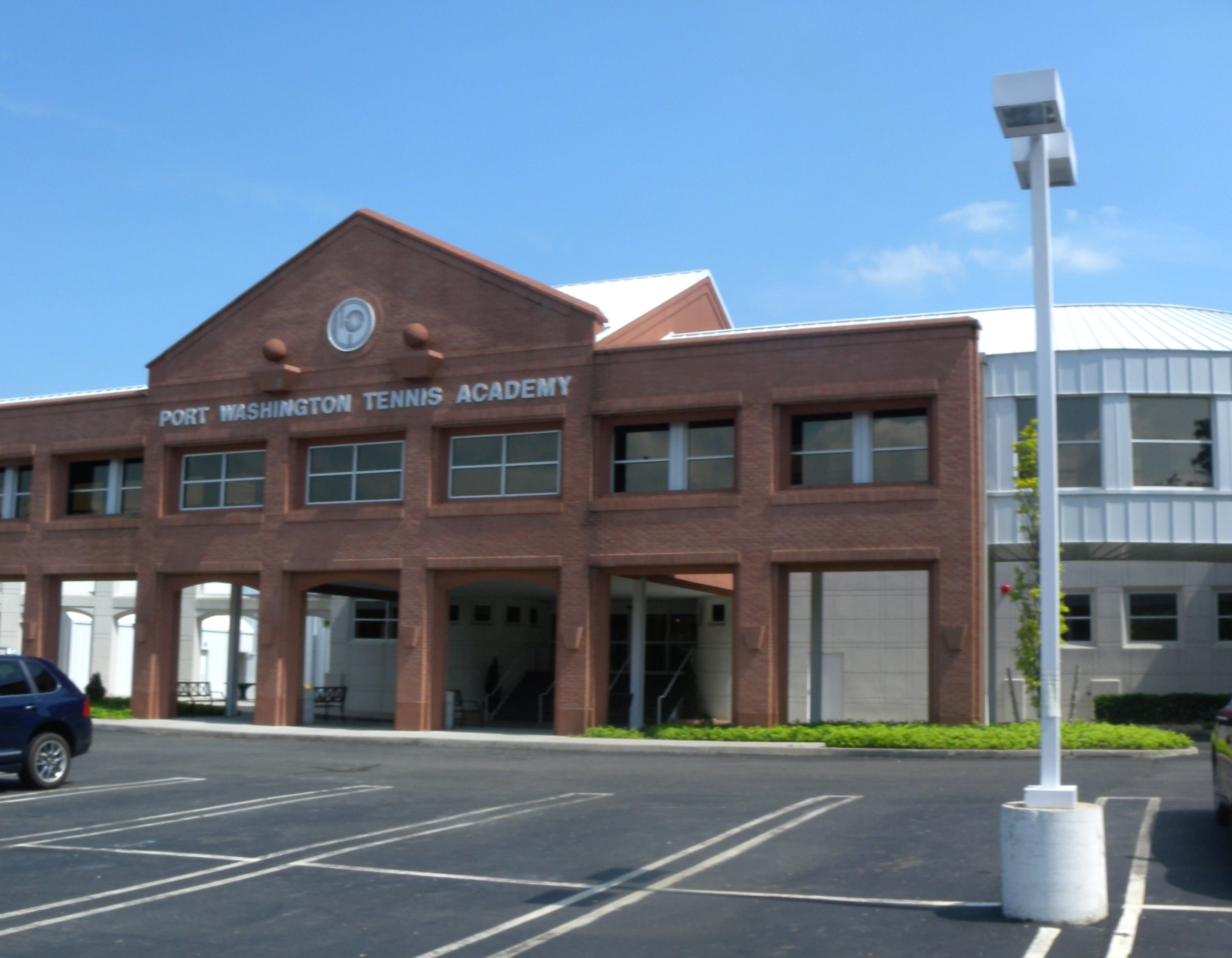 Looking southeast at PW Tennis Academy from parking lot on a sunny midday.